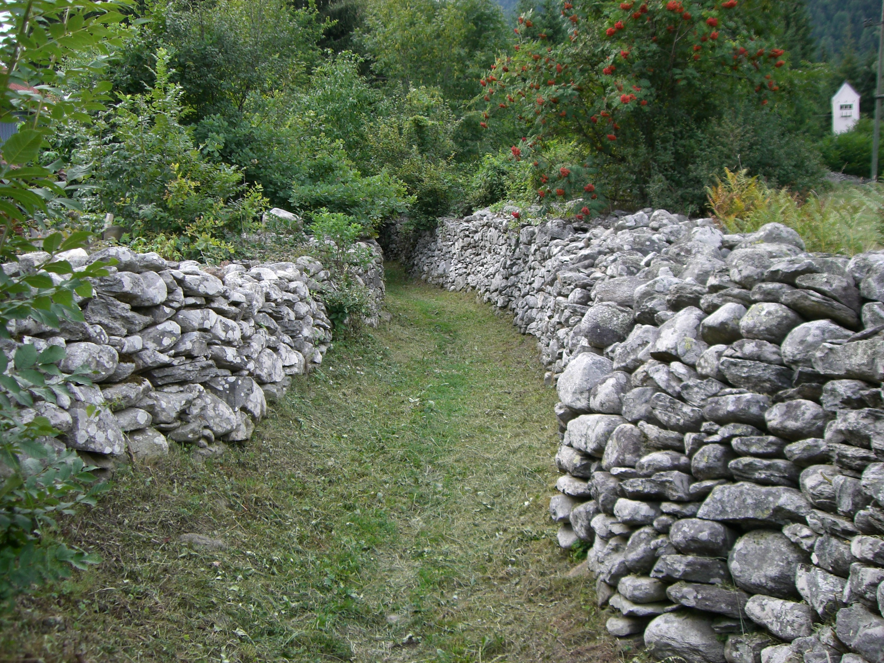 Dry stone wall in Kolbnitz with Roman path